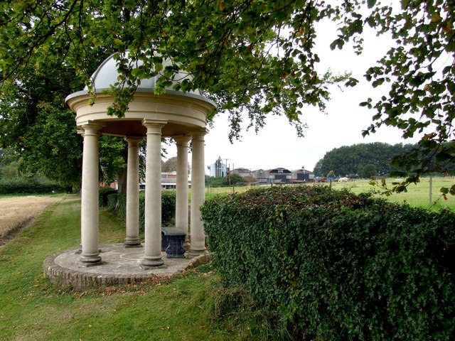 The Church of St Peter and St Paul, Hareby This small gazebo, with cupola, stands nearby the Church of St Peter & St Paul.